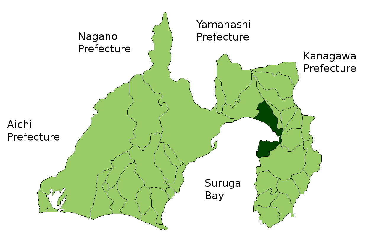 The location of Numazu in Shizuoka Prefecture, Japan